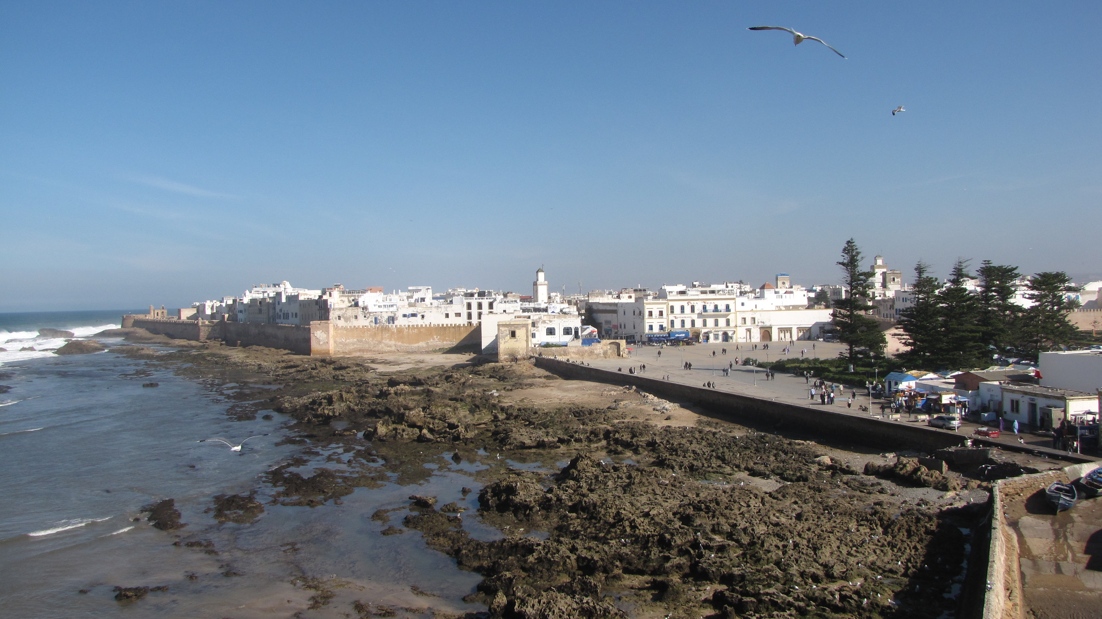 A view to medina of Essaouira in Essaouira province, Marrakech-Tensift-Al Haouz region, Morocco.